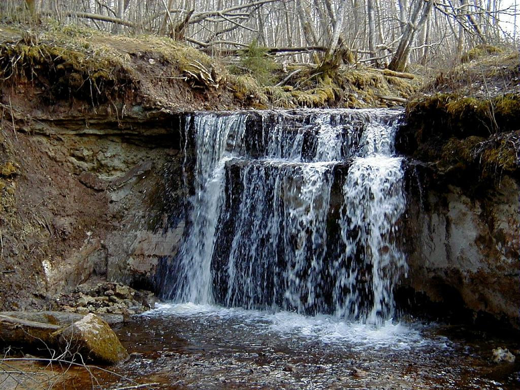 Dauda waterfall in Latvia